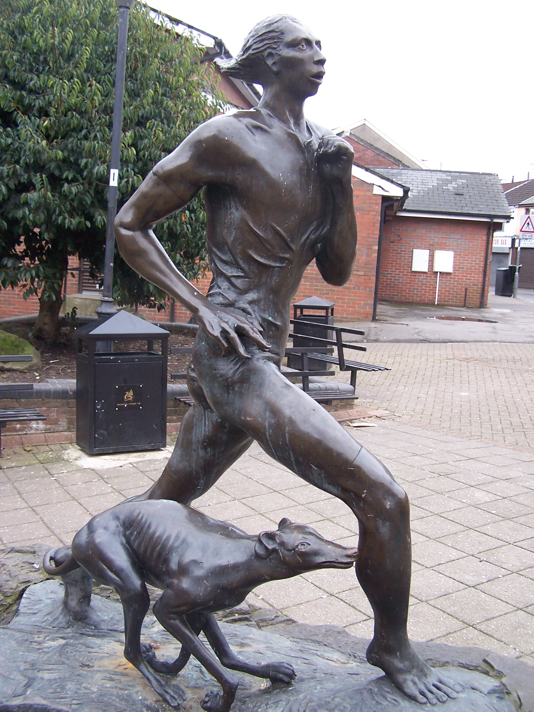 Guto Nyth Bran bronze statue located in Oxford Street, Mountain Ash, Rhondda Cynon Taff. – The statue commemorates the life of legendary runner Griffith Morgan. Sculptor Peter W. Nicholas. Unveiled in 1990.